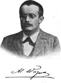 Alexander Wagner (chess player)